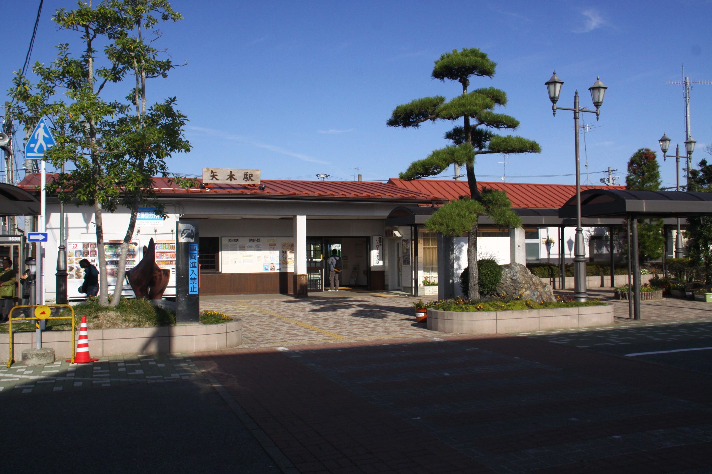 The building of Yamoto Station in Higashimatsushima, Miyagi.